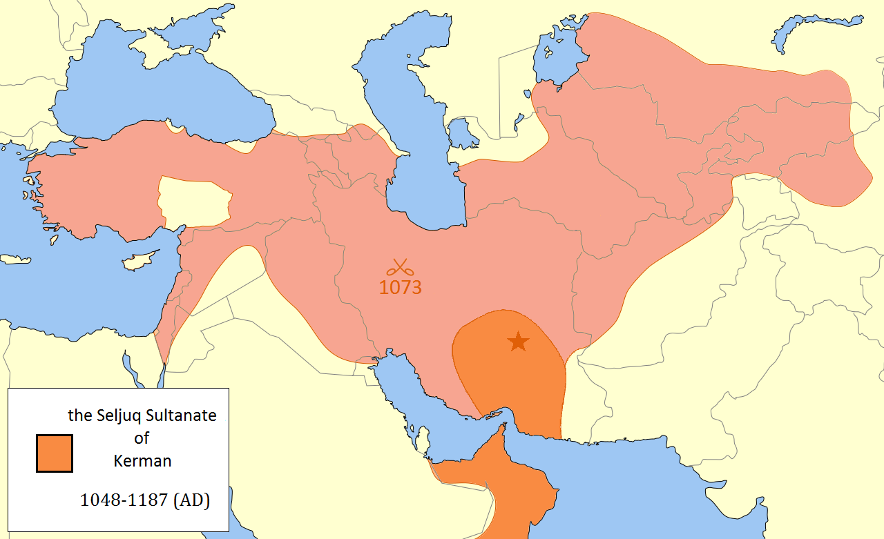 Seljuq sultanate of kerman's territory